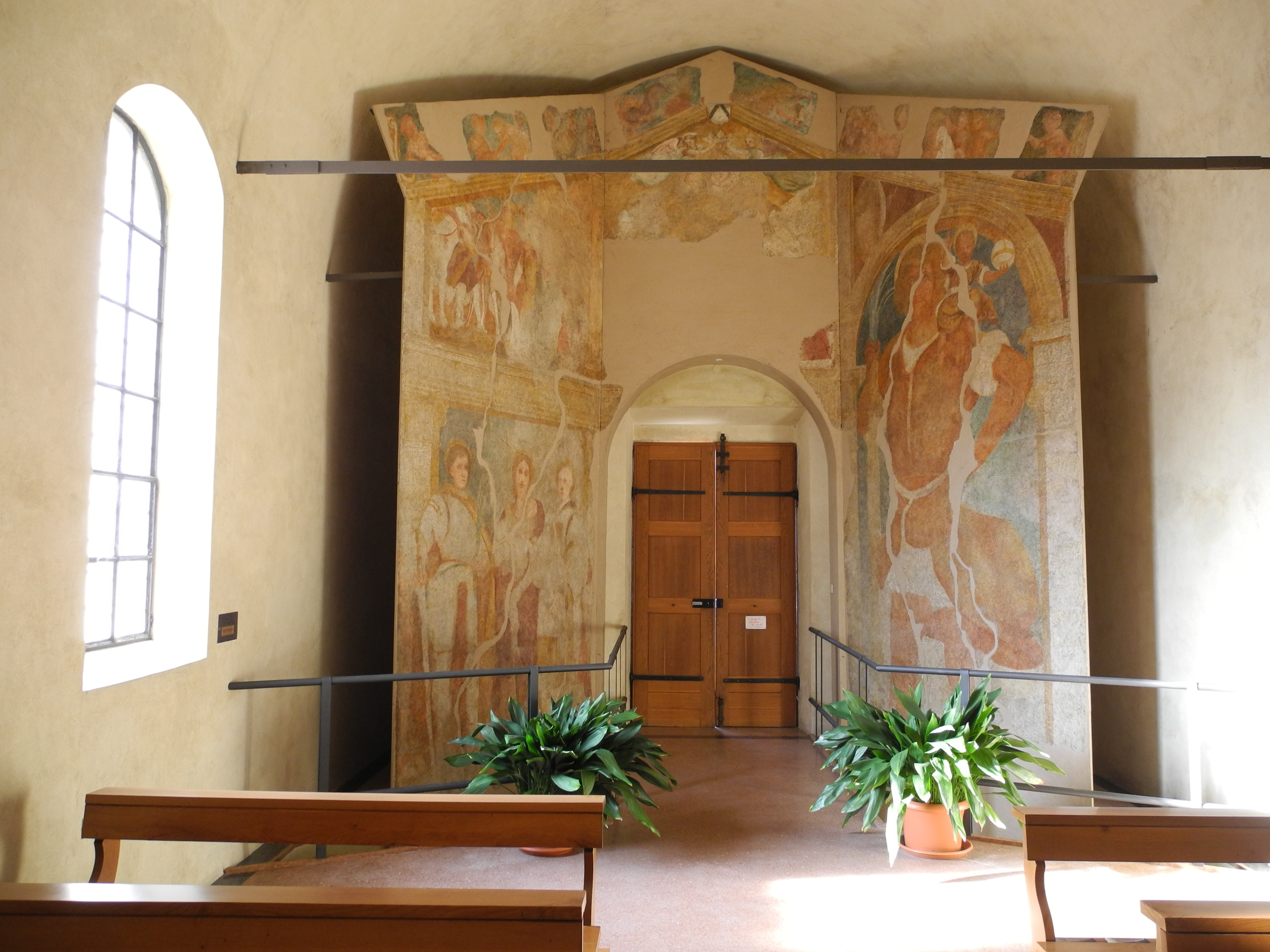 face of the church of S. Maria dei Battuti, now kept inside, Valeriano of Pinzano al Tagliamento (PN)